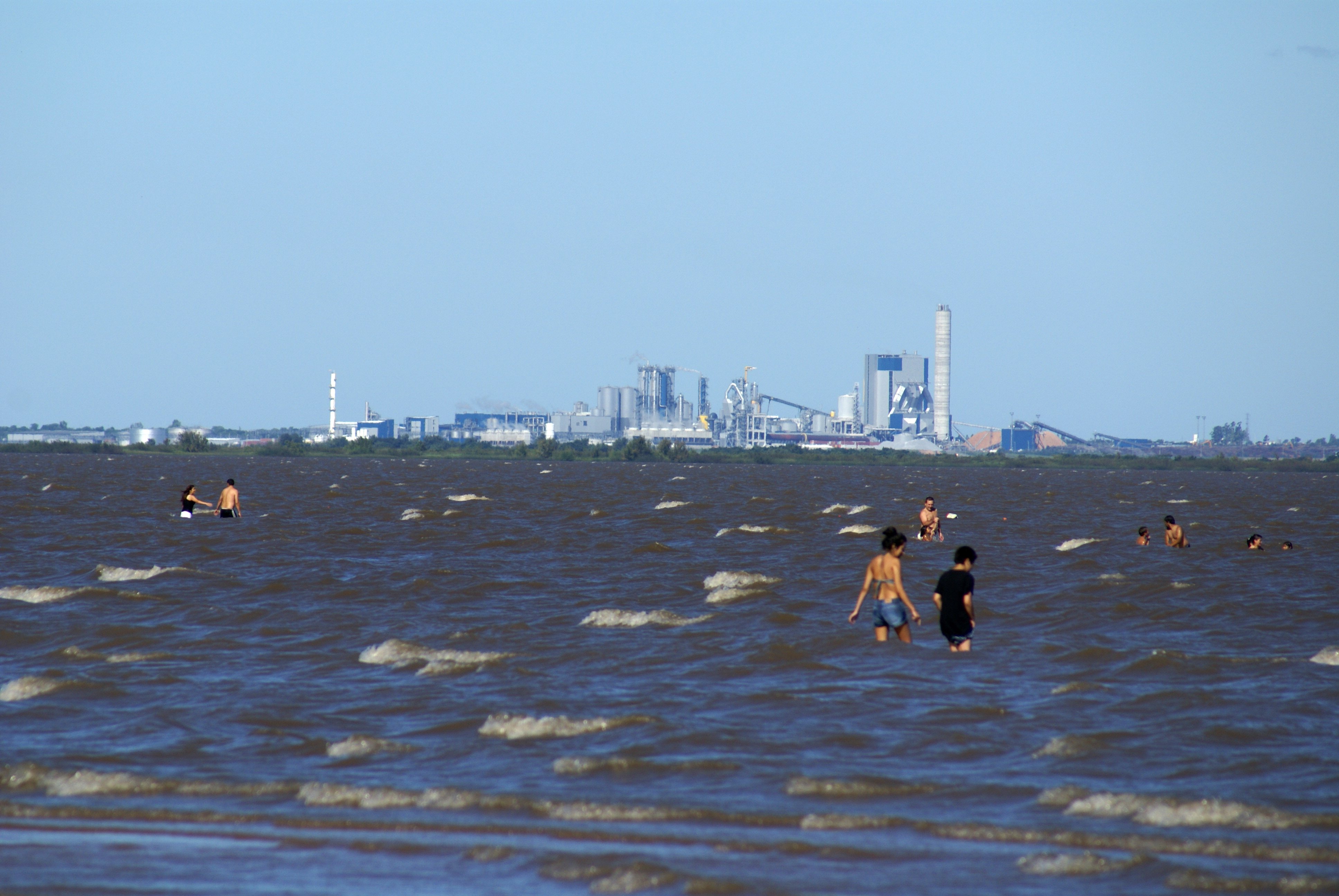 Botnia's cellulose plant over the Uruguay River, seen from the Argentine coast, at Ñandubaysal beach. Planta de celuosa de Botnia sobre el río Uruguay, vista desde la costa argentina, en la playa Ñandubaysal.